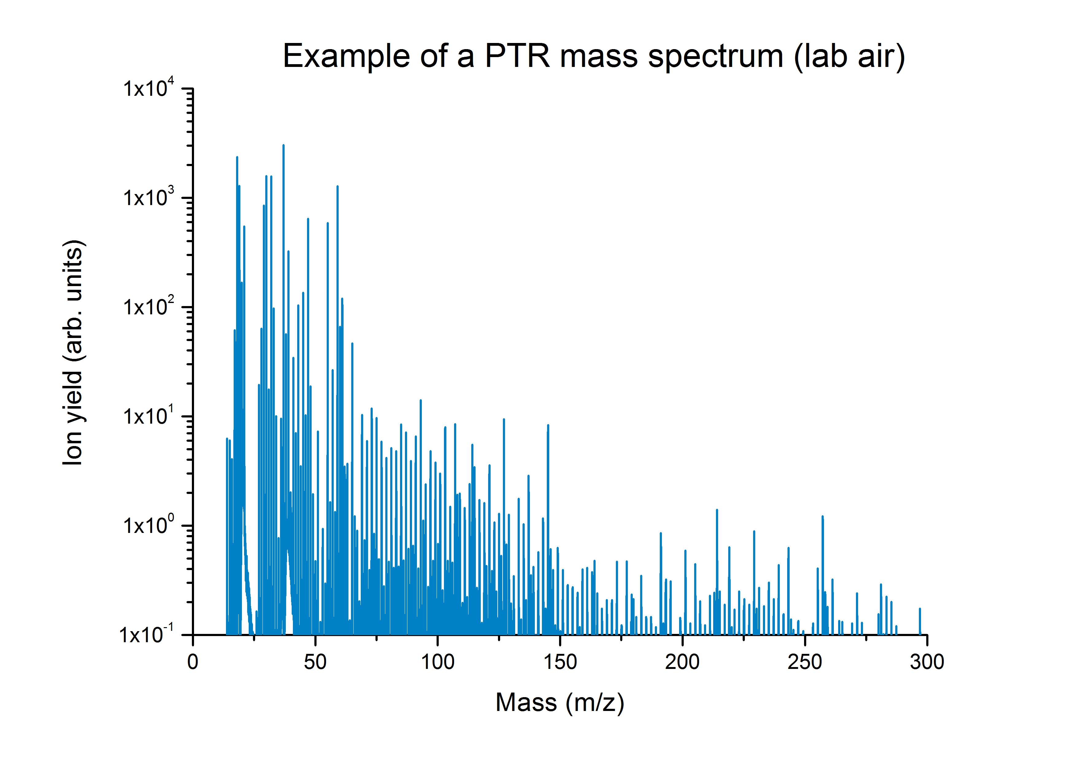 A typical PTR-MS mass spectrum of lab air obtained using a TOF based instrument (PTR-TOF 8000; IONICON Analytik, AUSTRIA)